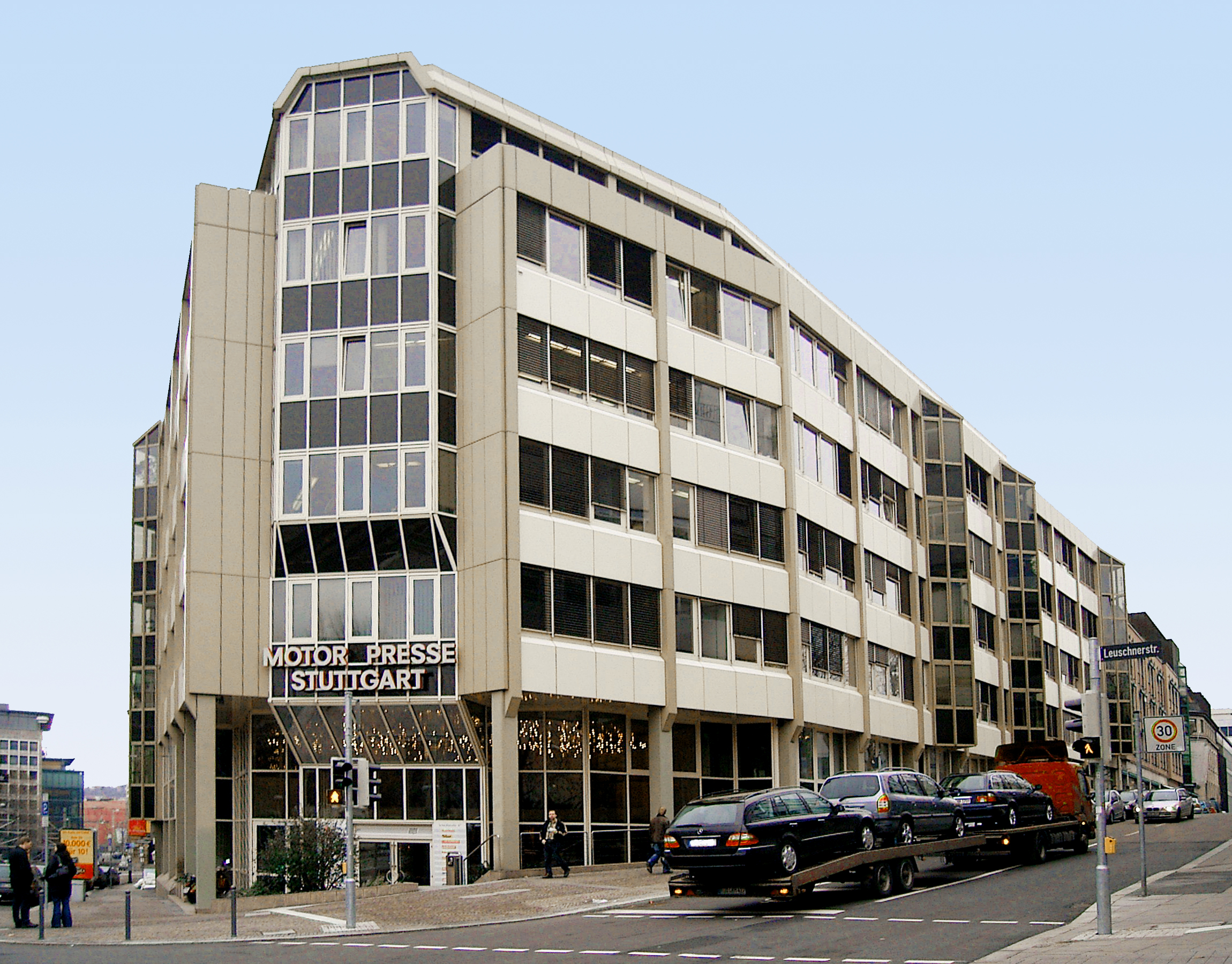 Building of the Motor Press Stuttgart